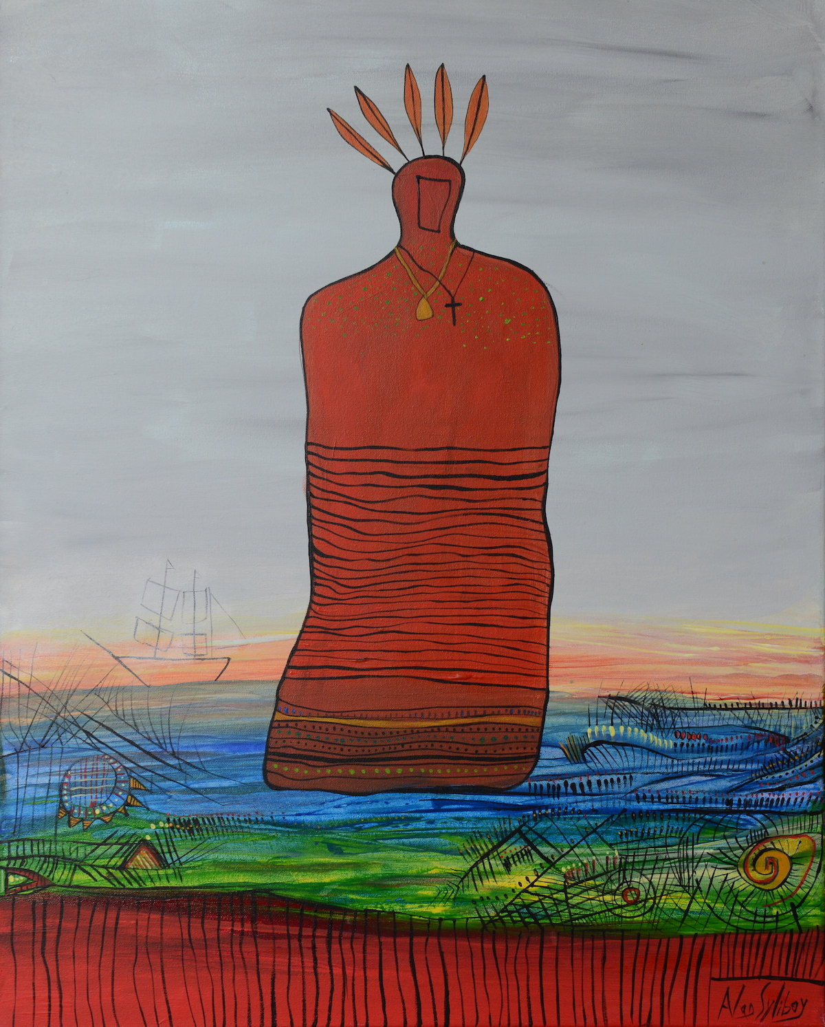 Portrait of Grand Chief Henri Membertou by Alan Syliboy, presented on 28 June 2010 by Grand Chief Benjamin Sylliboy to Queen Elizabeth the Second and placed on permanent display in Government House Halifax.